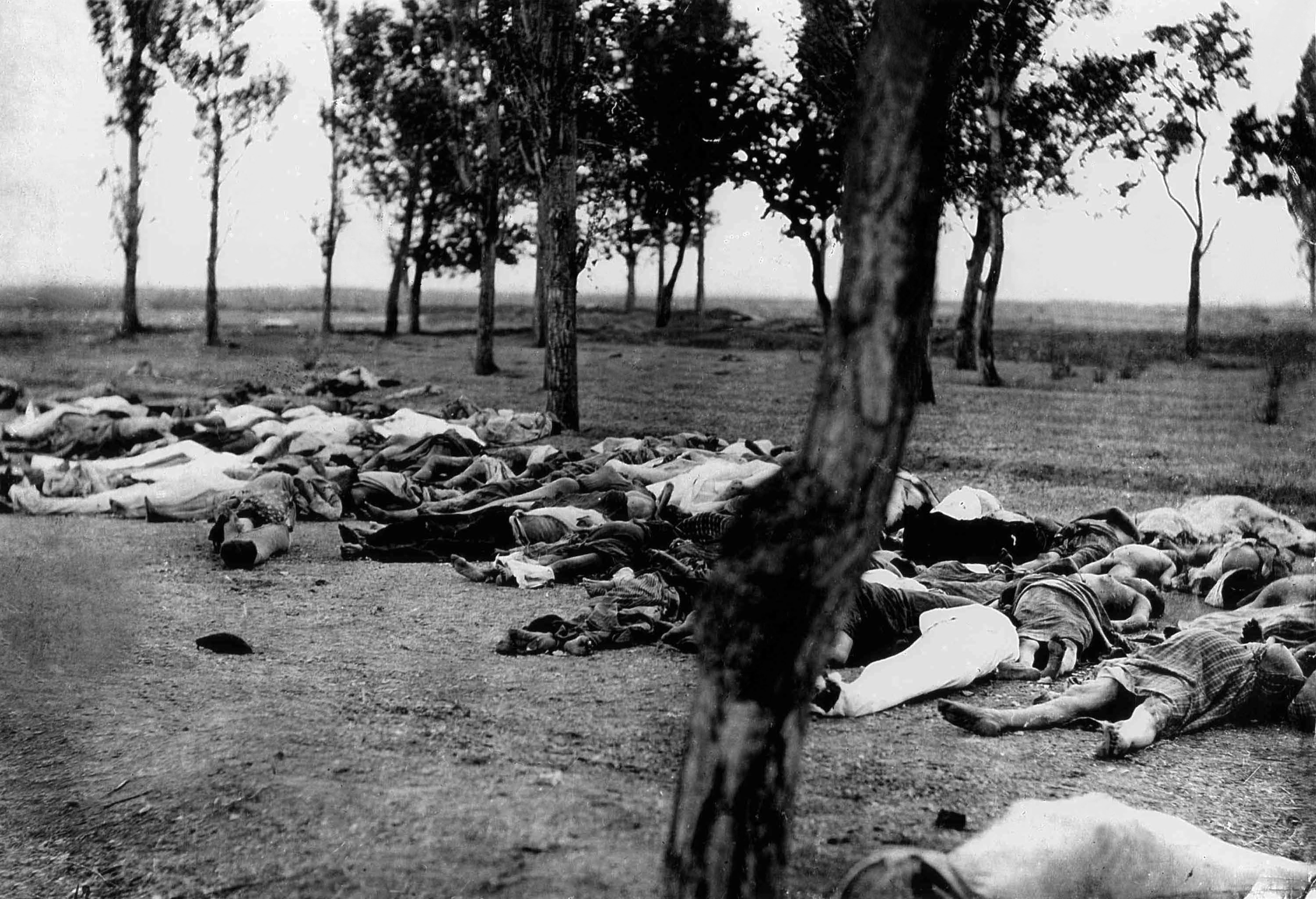 Picture showing Armenians killed during the Armenian Genocide. Image taken from Ambassador Morgenthau's Story, written by Henry Morgenthau, Sr. and published in 1918. Original description: "THOSE WHO FELL BY THE WAYSIDE. Scenes like this were common all over the Armenian provinces, in the spring and summer months of 1915. Death in its several forms---massacre, starvation, exhaustion---destroyed the larger part of the refugees. The Turkish policy was that of extermination under the guise of deportation"